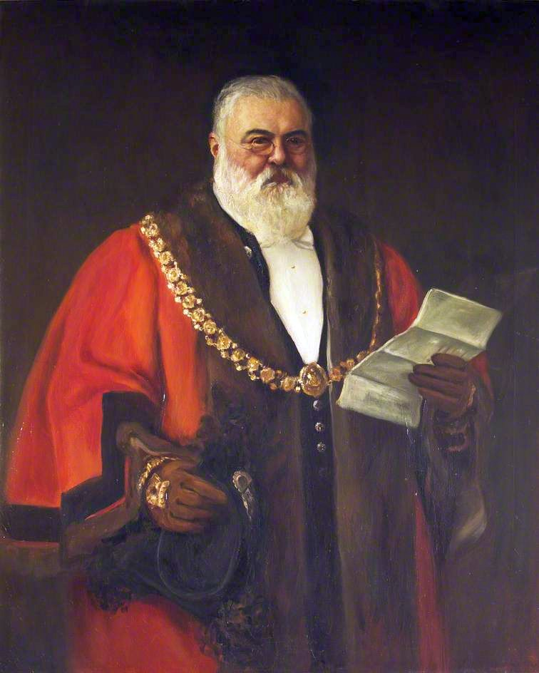 Portrait of Frank William Wills that hangs in the Mansion House of Bristol City Council